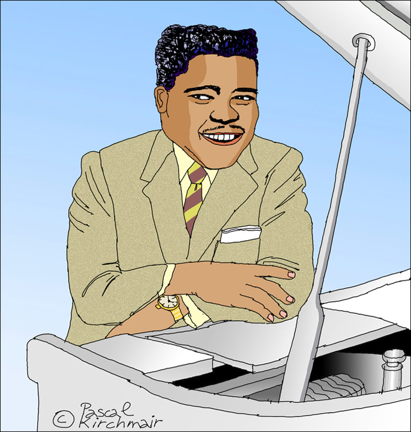 Portrait/caricature of Fats Domino who was an American pianist and singer-songwriter of Louisiana Creole descent. One of the pioneers of rock and roll music, Domino sold more than 65 million records.